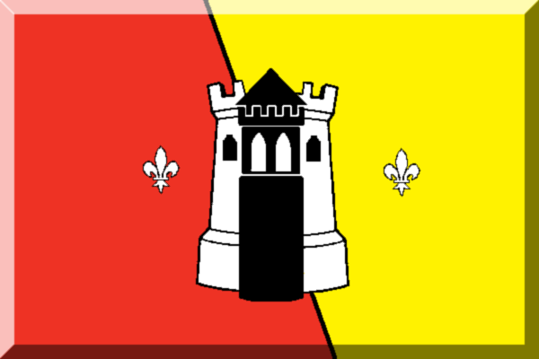 Fantasy flag of RC Lens football club, using this and this tower